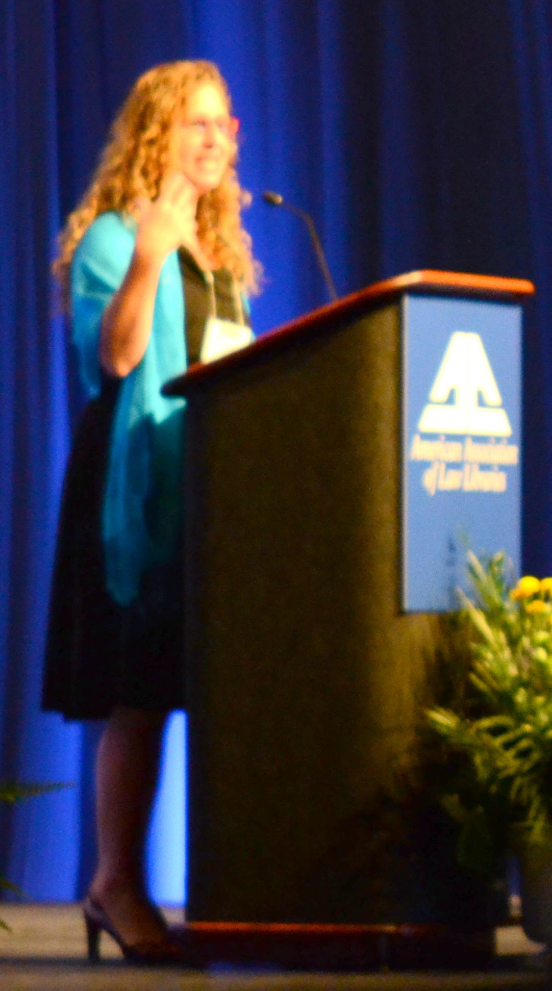 2011 American Association of Law Libraries annual conference at the Philadelphia Conference Center--Dahlia Lithwick giving the keynote speech on "The Supreme Court and Free Speech".